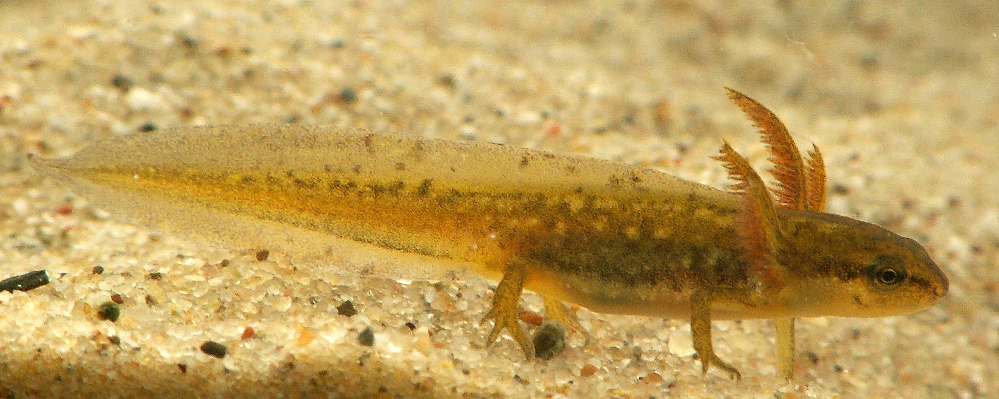 Well developed larva of the Smooth Newt Lissotriton vulgaris (Triturus vulgaris).